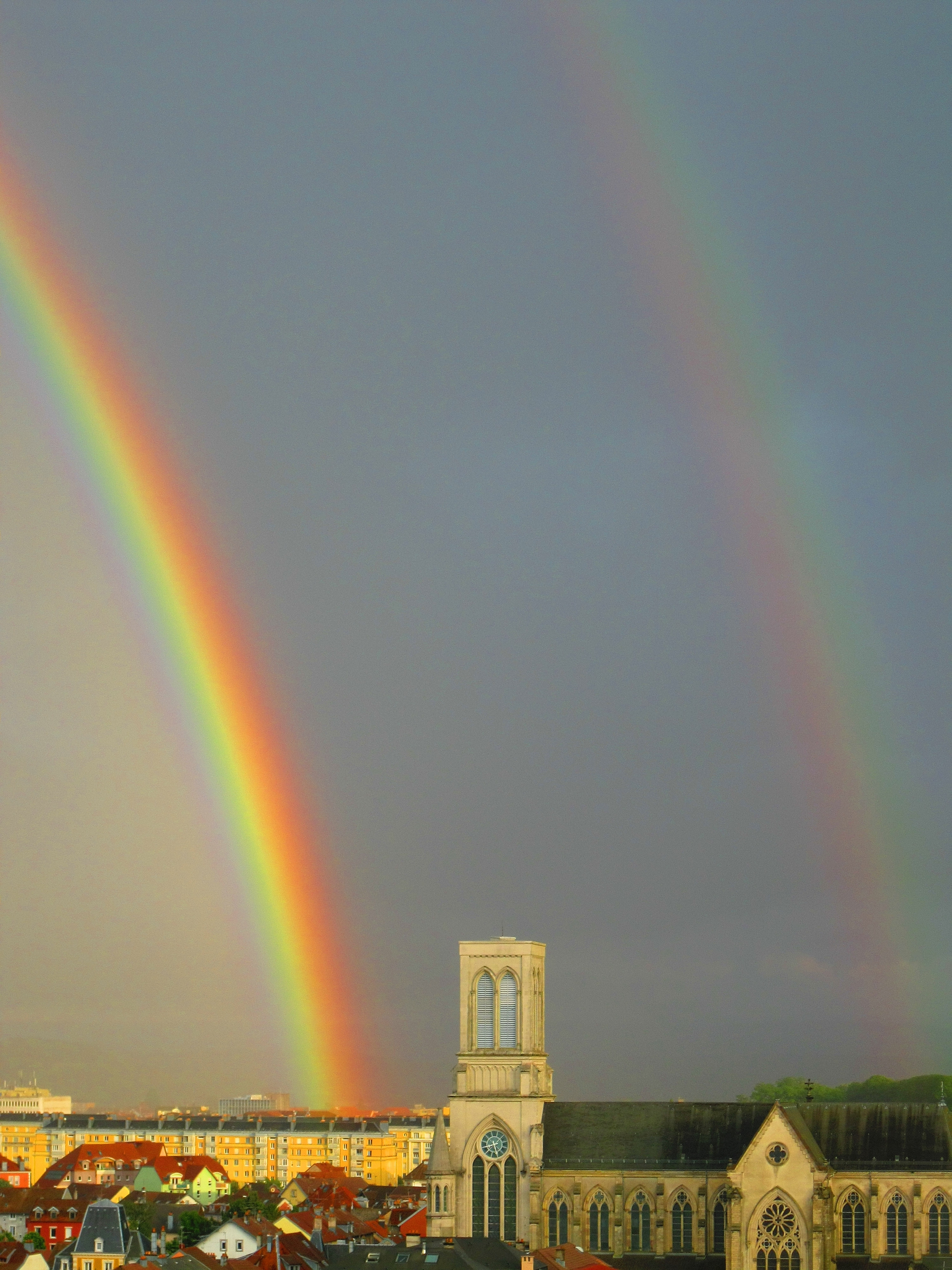 Double rainbow after the storm over Belfort.